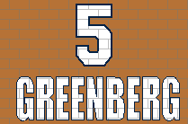 A recreation of how it looks at Comerica